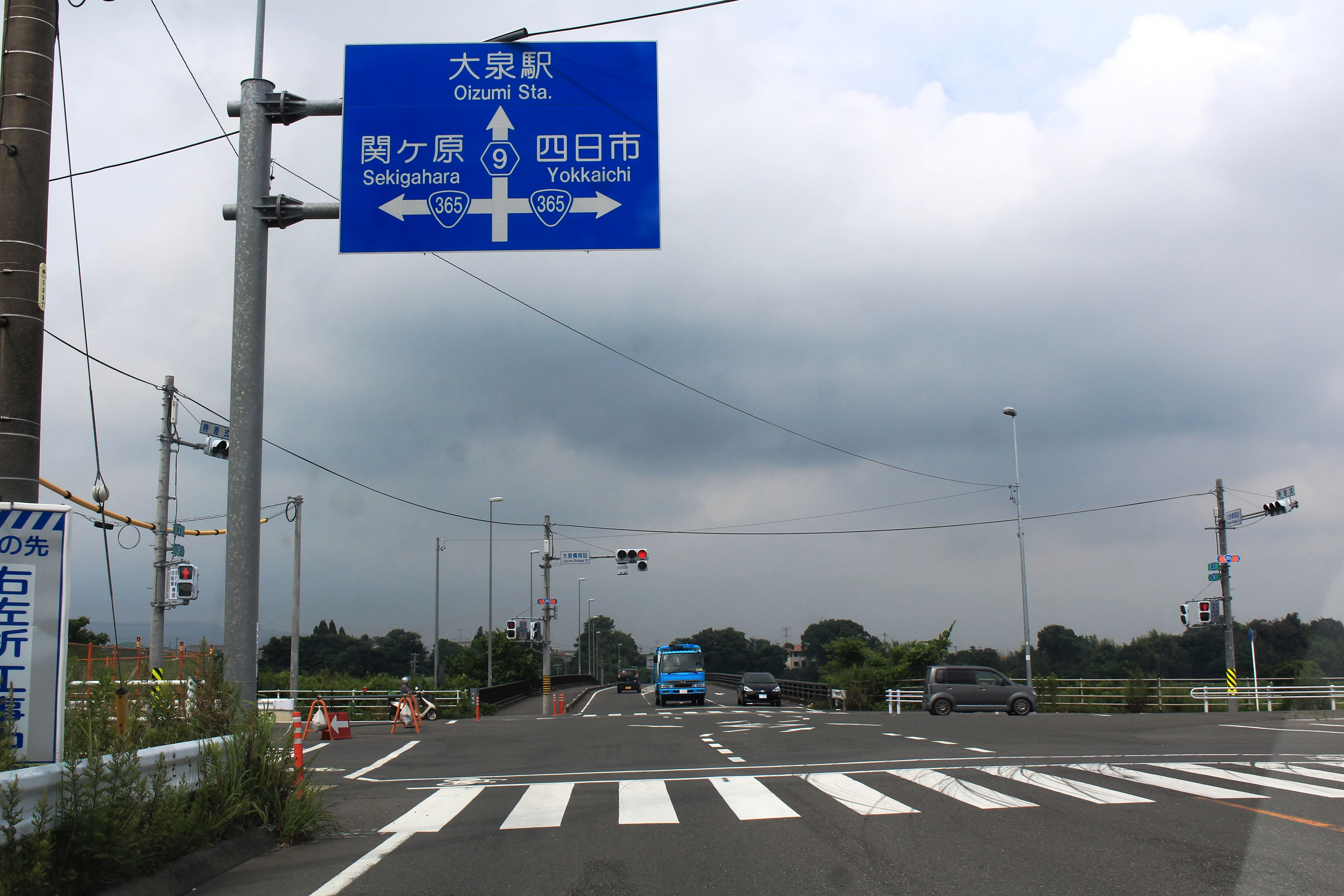 Mie Prefectural Road Route 9 in Oizumi Bridge west, Inabe, Mie prefecture, Japan.